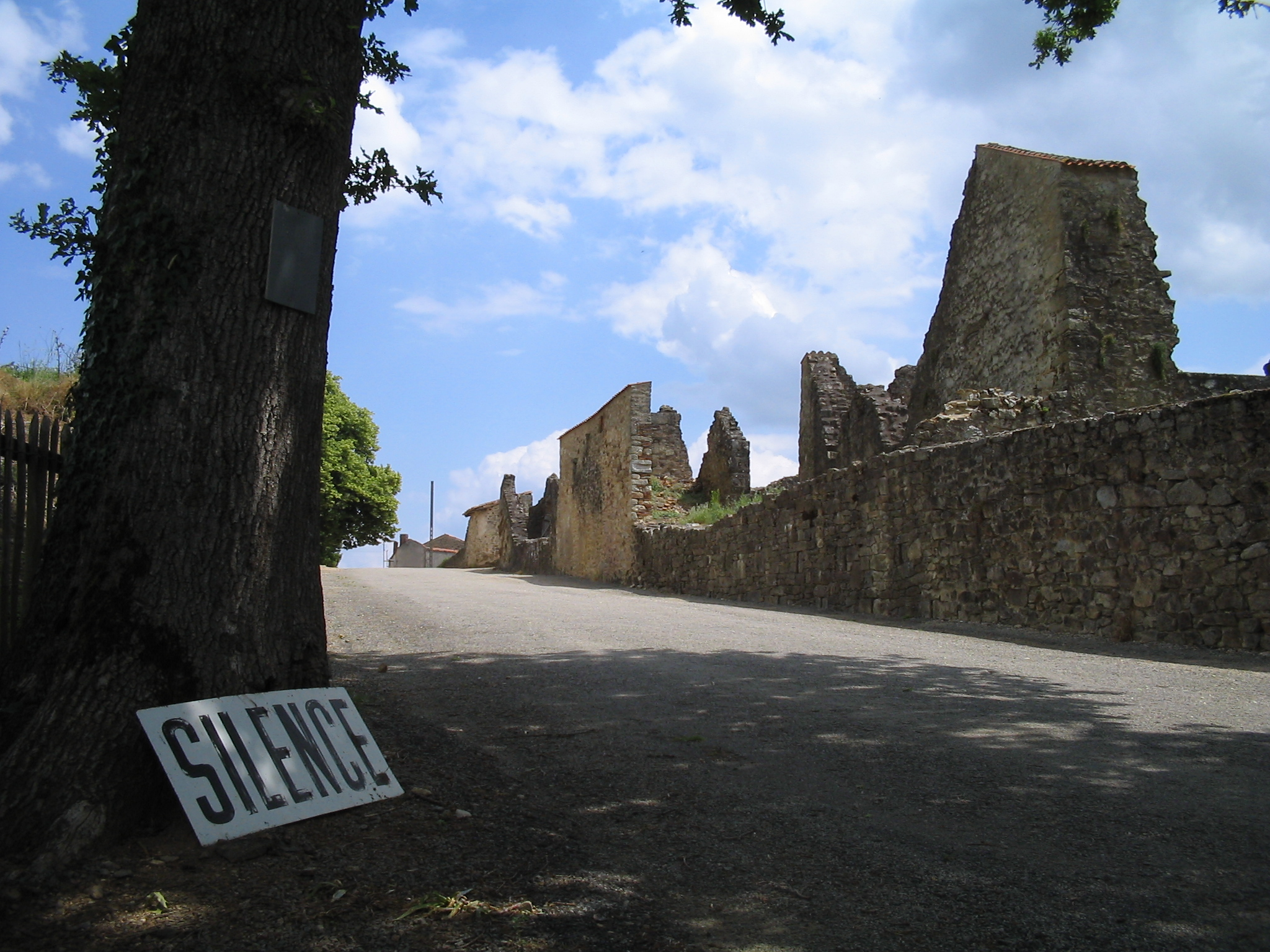 The entrance to Oradour-sur-Glane. This is a photograph which I took during a visit to the French village Oradour-sur-Glane on June 11 2004, exactly 60 years after its destruction by the German army during World War II.